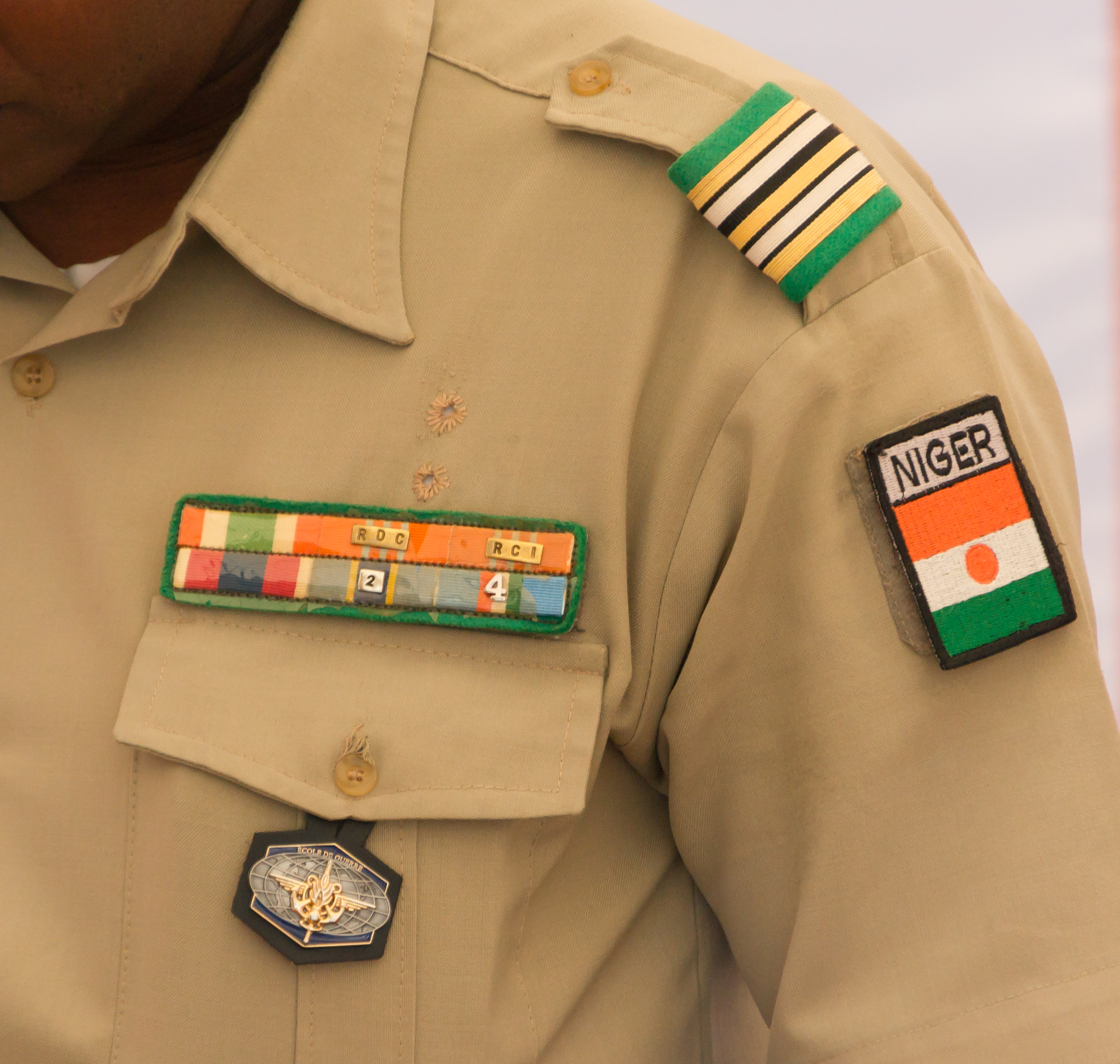 Details of the uniform of an officer of the army of Niger